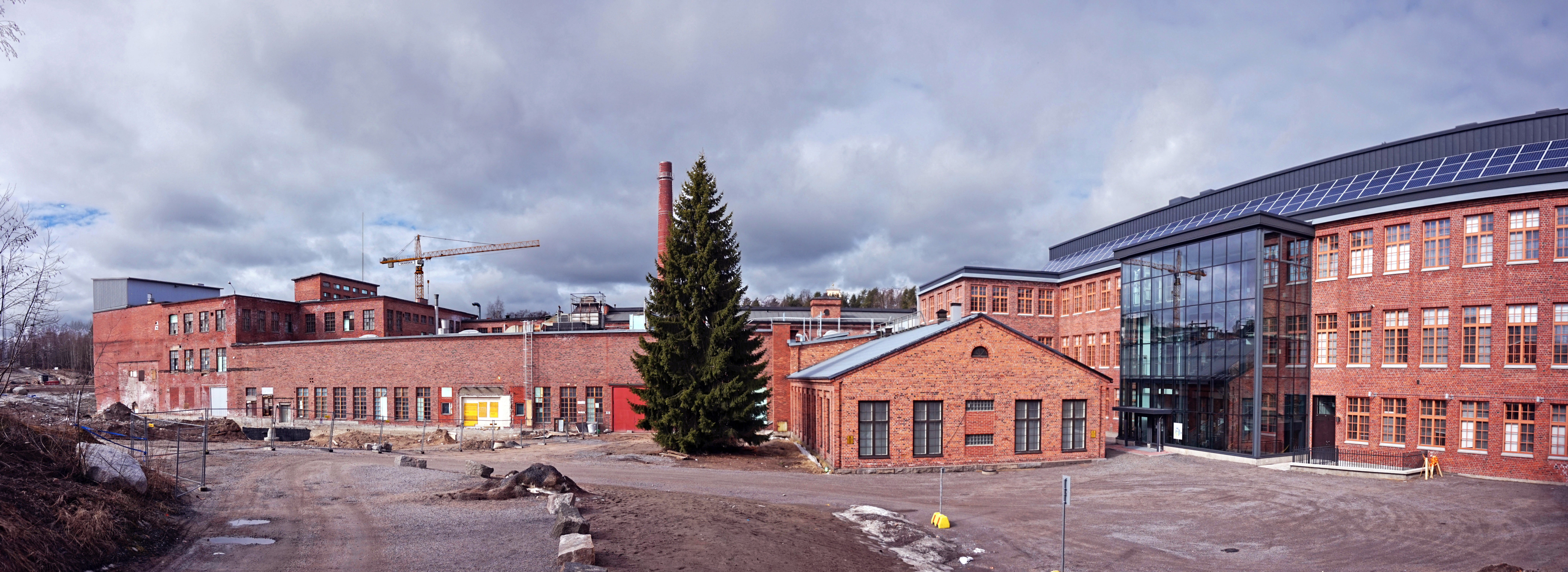 Kangas area in Jyväskylä.